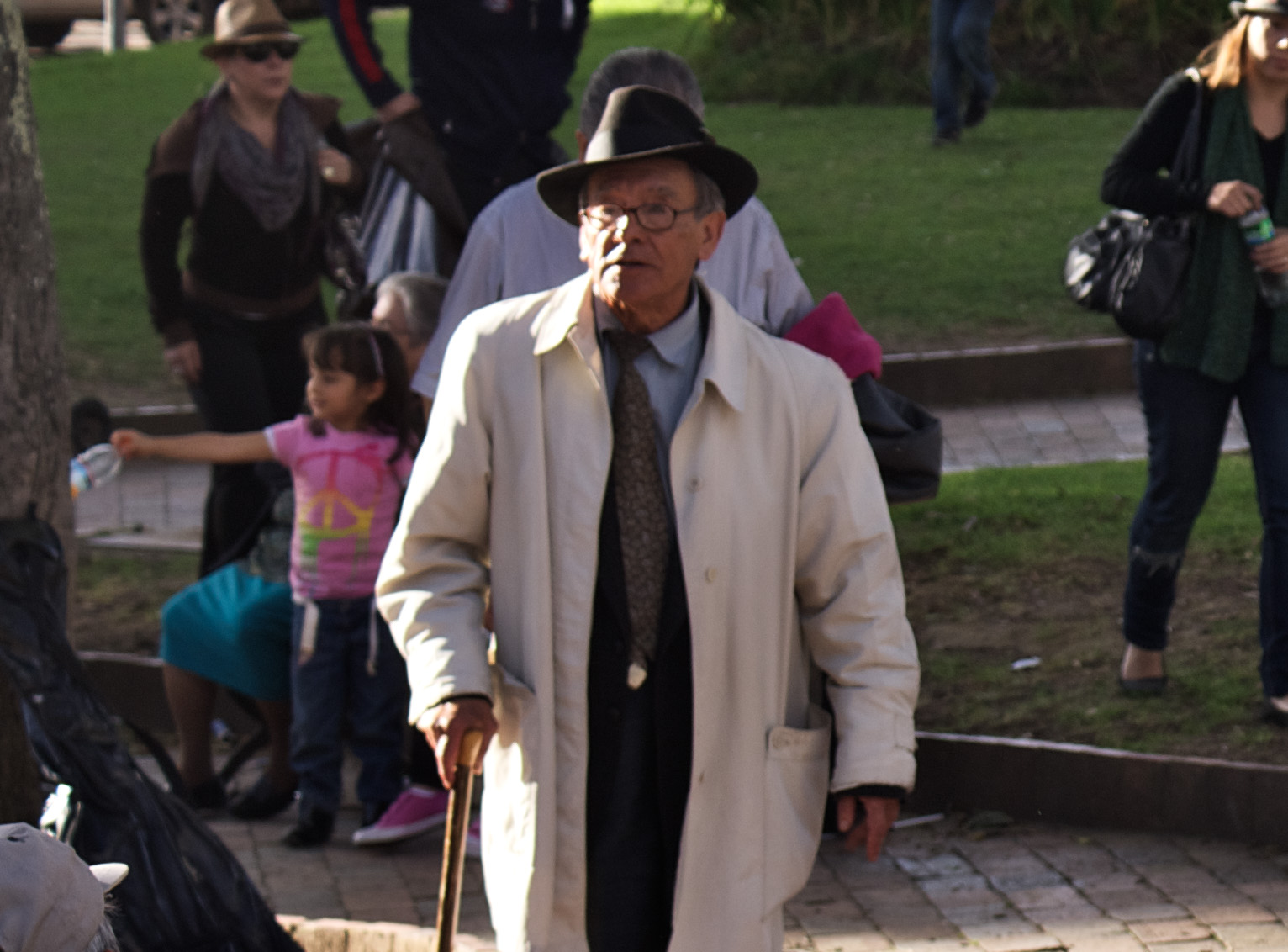 A typical cachaco in Bogota.